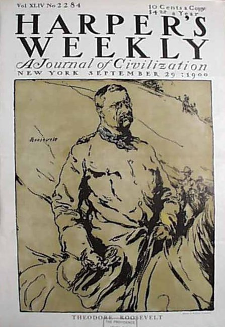 Front cover of the September 29, 1900 issue of Harper's Weekly, featuring a two-color print of Teddy Roosevelt recently after the Spanish-American War.